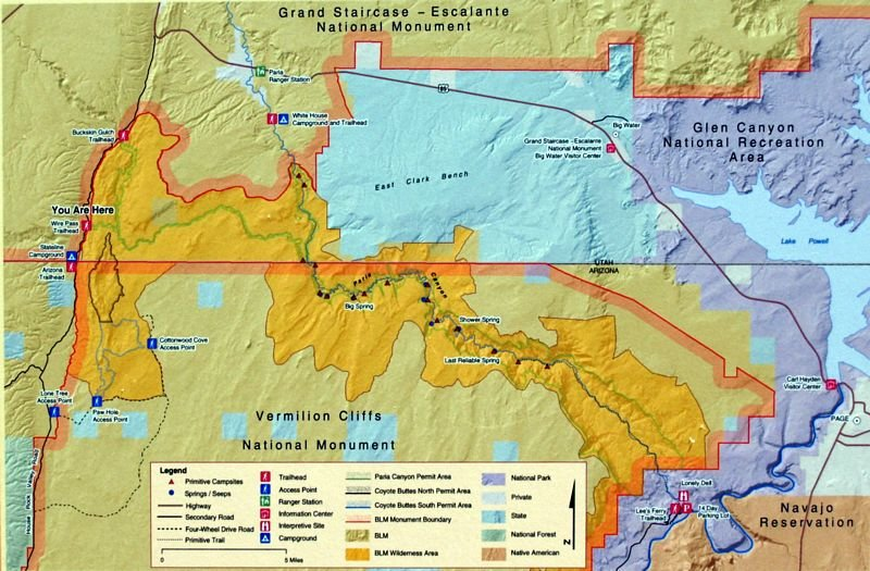 Photograph of a map found on an outdoor public sign at the Wire Pass Trailhead.